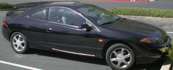 Mercury Cougar)